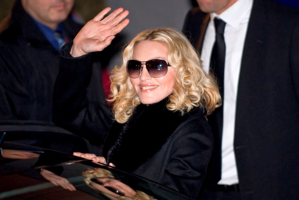 Madonna leaving the press conference for "Filth And Wisdom" at the Hyatt Hotel, Potsdamer Platz, Berlin.